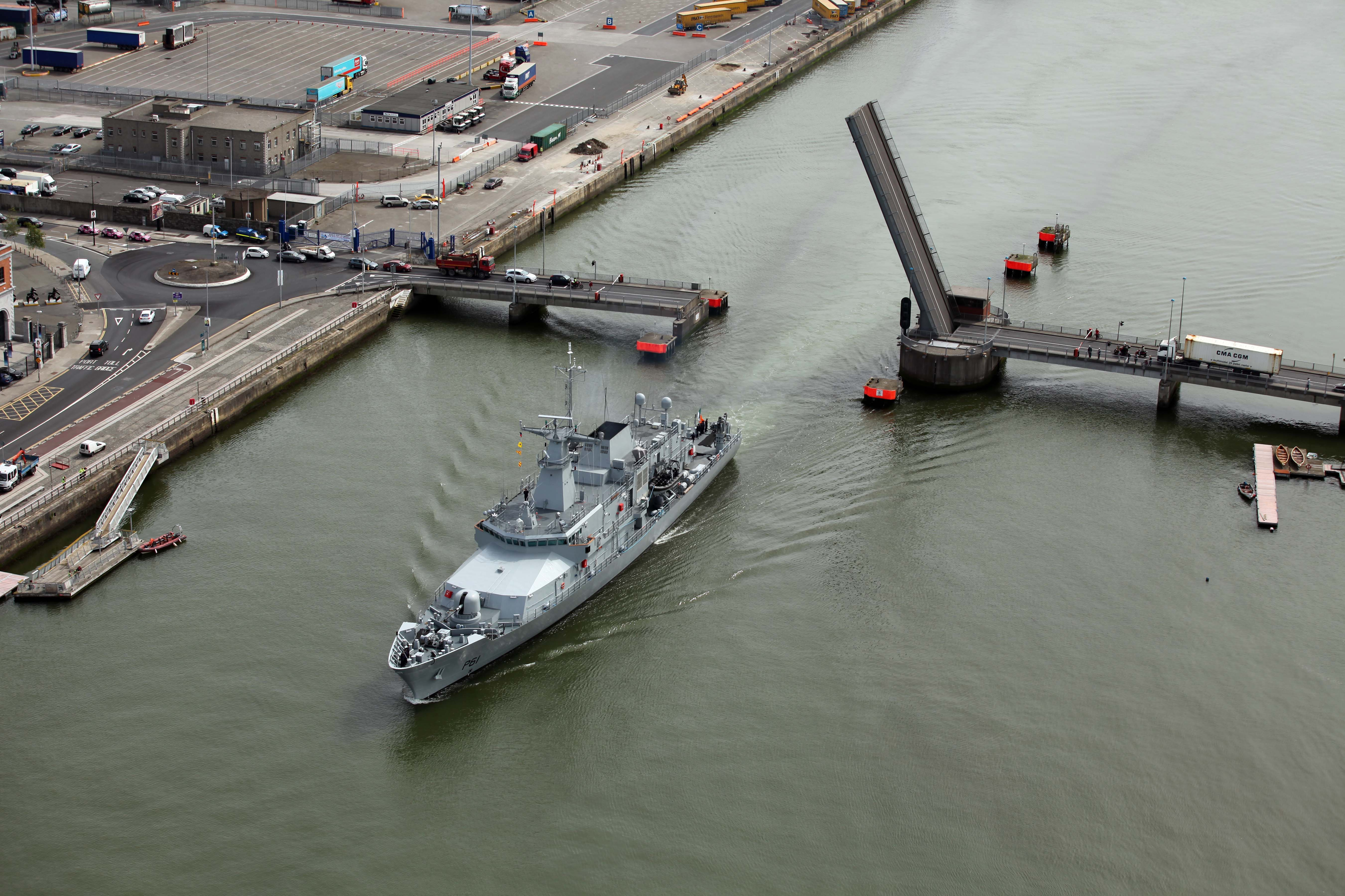 Naming and Commissioning-LÉ Samuel Becket